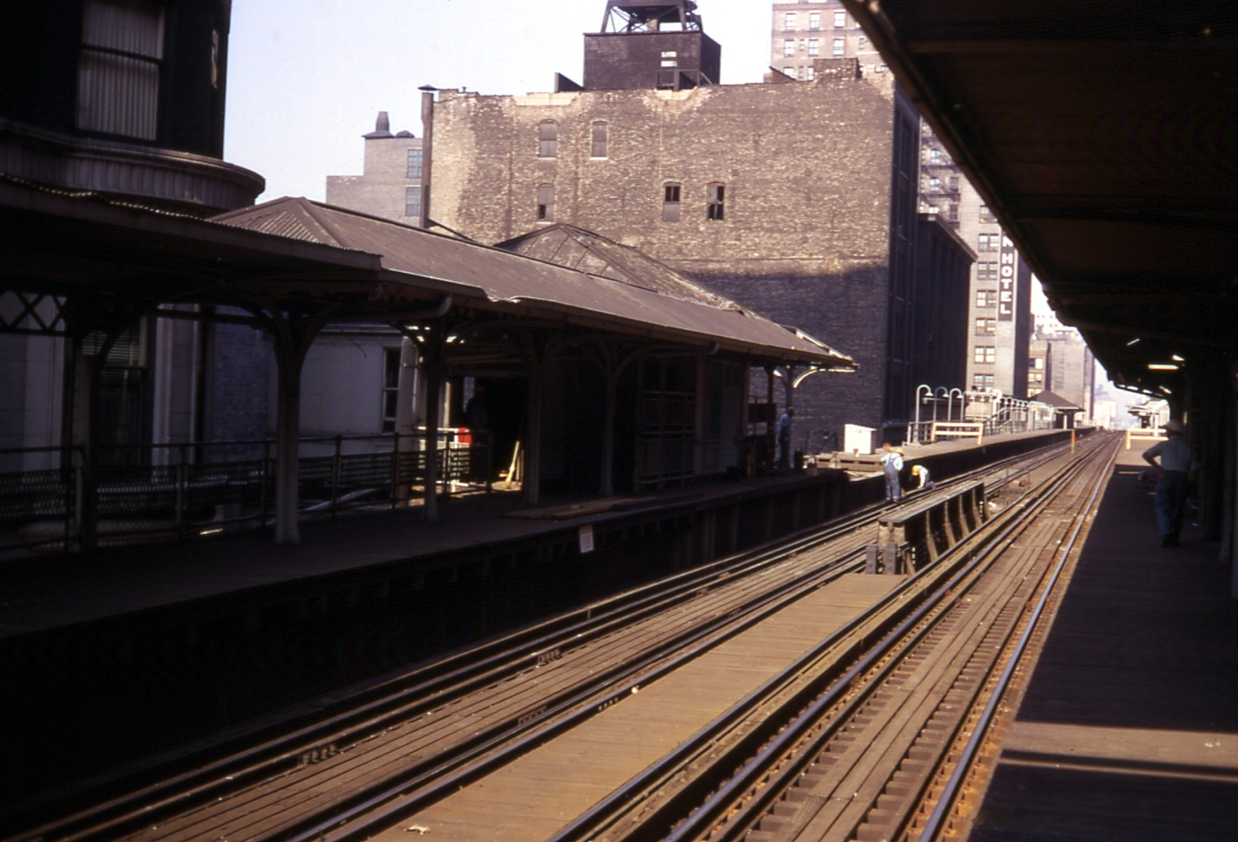 Dearborn/Van Buren station on the Chicago 'L', which closed in 1949 and demolished in 1975.